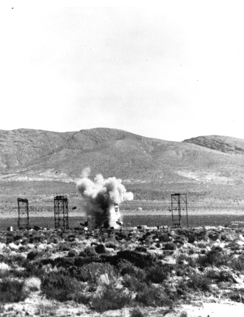 Operation Hardtack II, LUNA Event - Nevada Test Site, debris and flames from the safety experiment, LUNA, rises over the desert at the Nevada Test Site, 21 September 1958 after the device was detonated.